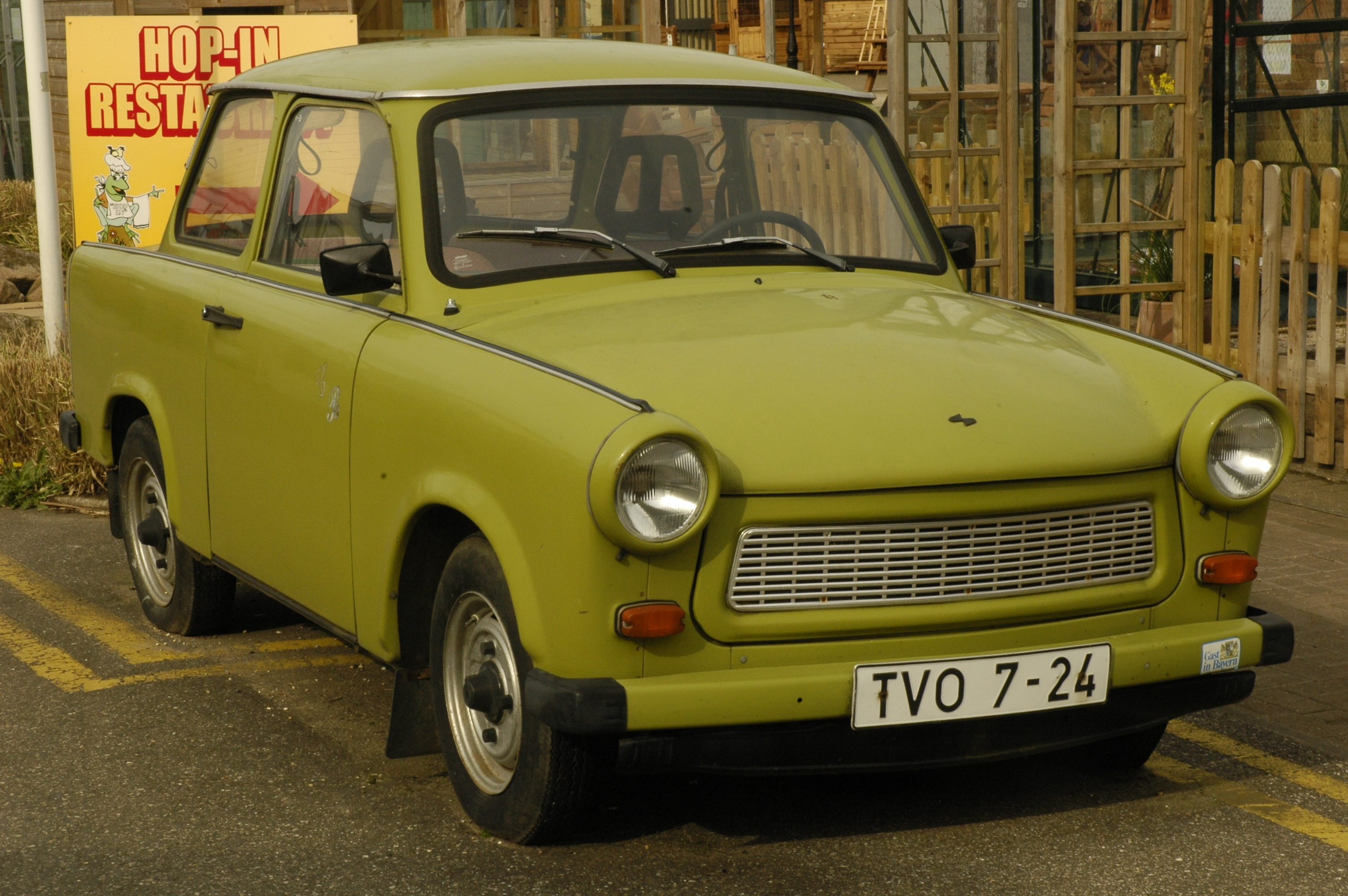 Trabant on display at Baytree Garden Centre, Weston, Spalding, Lincolnshire. 2 April, 2011